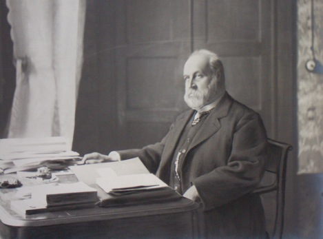 Annibale Certani di Cerreto